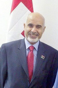 Cropped version of Megariaf.jpg for Libyan General National Congress election, 2012 infobox